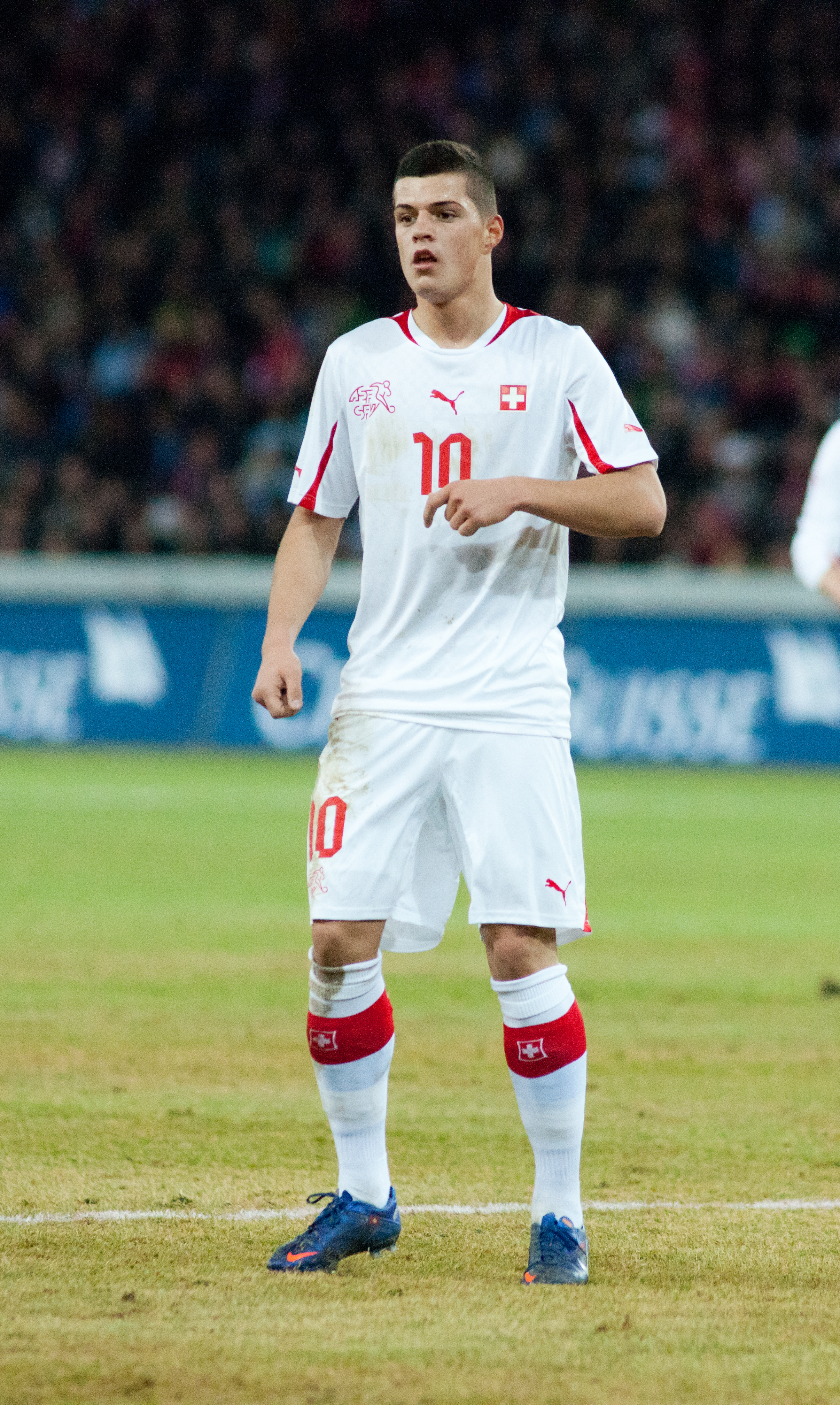 The making of this document was supported by Wikimedia CH. (Submit your project!) For all the files concerned, please see the category Supported by Wikimedia CH. Switzerland vs. Argentina, 29th February 2012